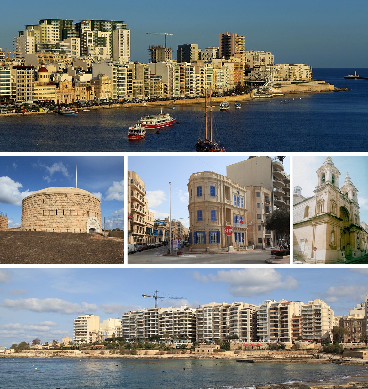 Montage of various landmarks in Sliema, Malta